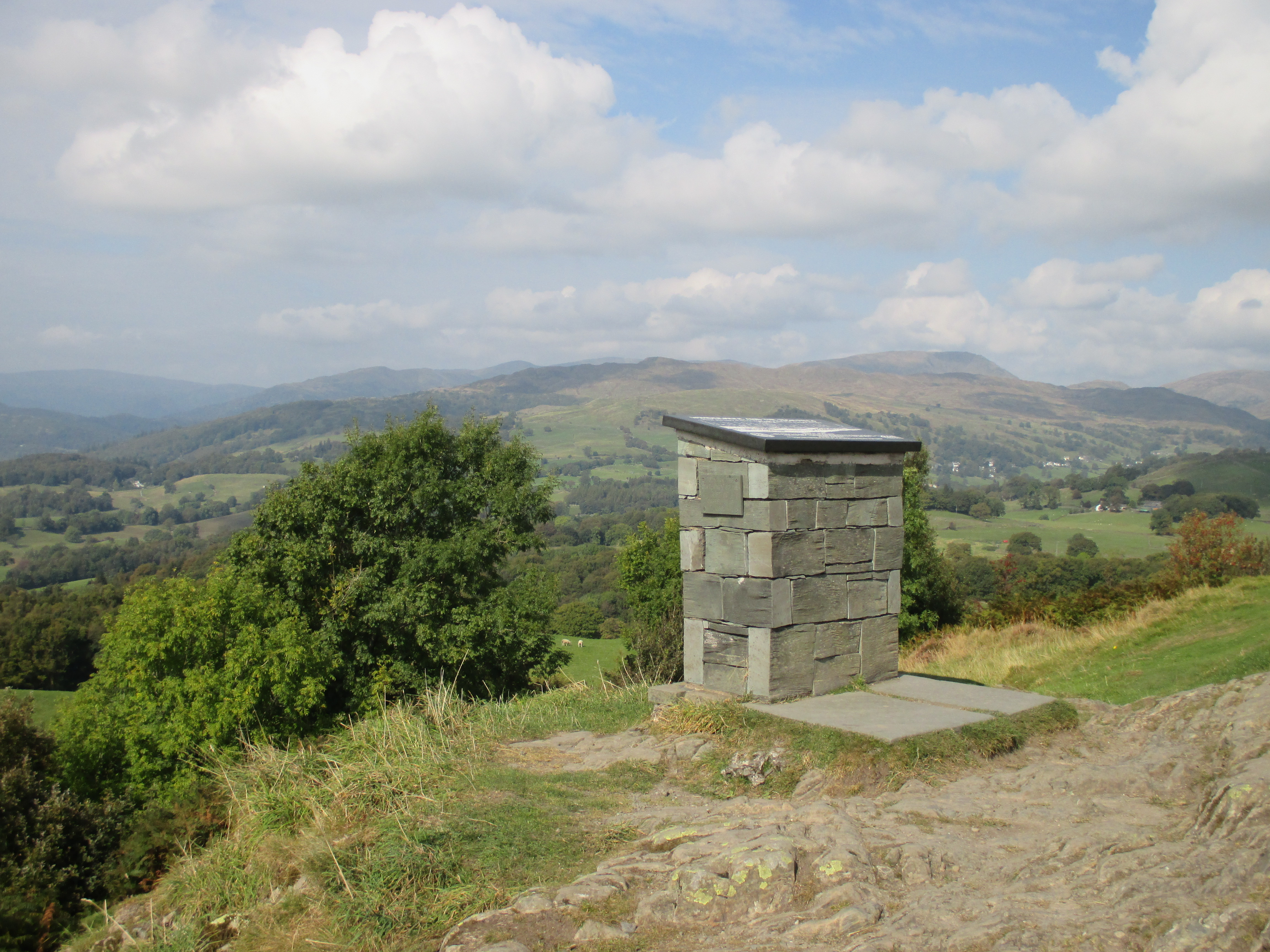 View from the summit of Orrest Head, Windermere, Cumbria, looking north-eastward.